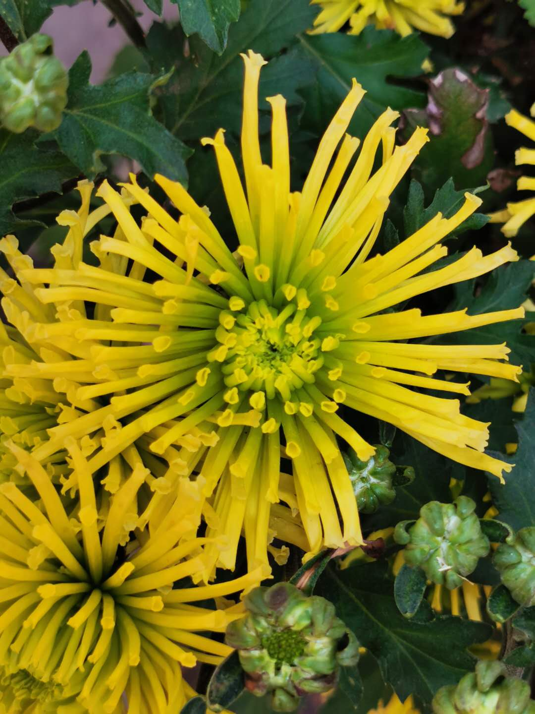 Chrysanthemum × morifolium. Taichung, Taiwan.